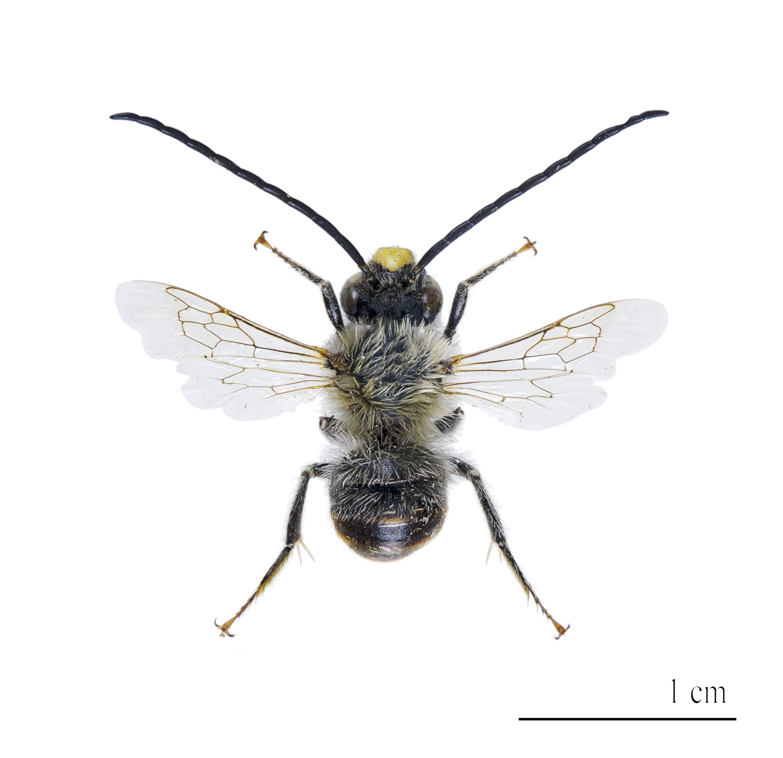 Male - Dorsal side Locality: Maourine pond, Toulouse, France